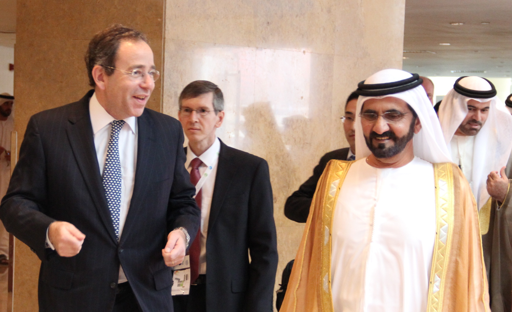 Deputy Secretary of State Thomas Nides and U.S. Consul General to Dubai Rob Waller meet with the Ruler of Dubai, Sheikh Mohammed bin Rashid Al Maktoum, during the Global Entrepreneurship Summit (GES) in Dubai, United Arab Emirates, December 12, 2012. [State Department photo/ Public Domain]